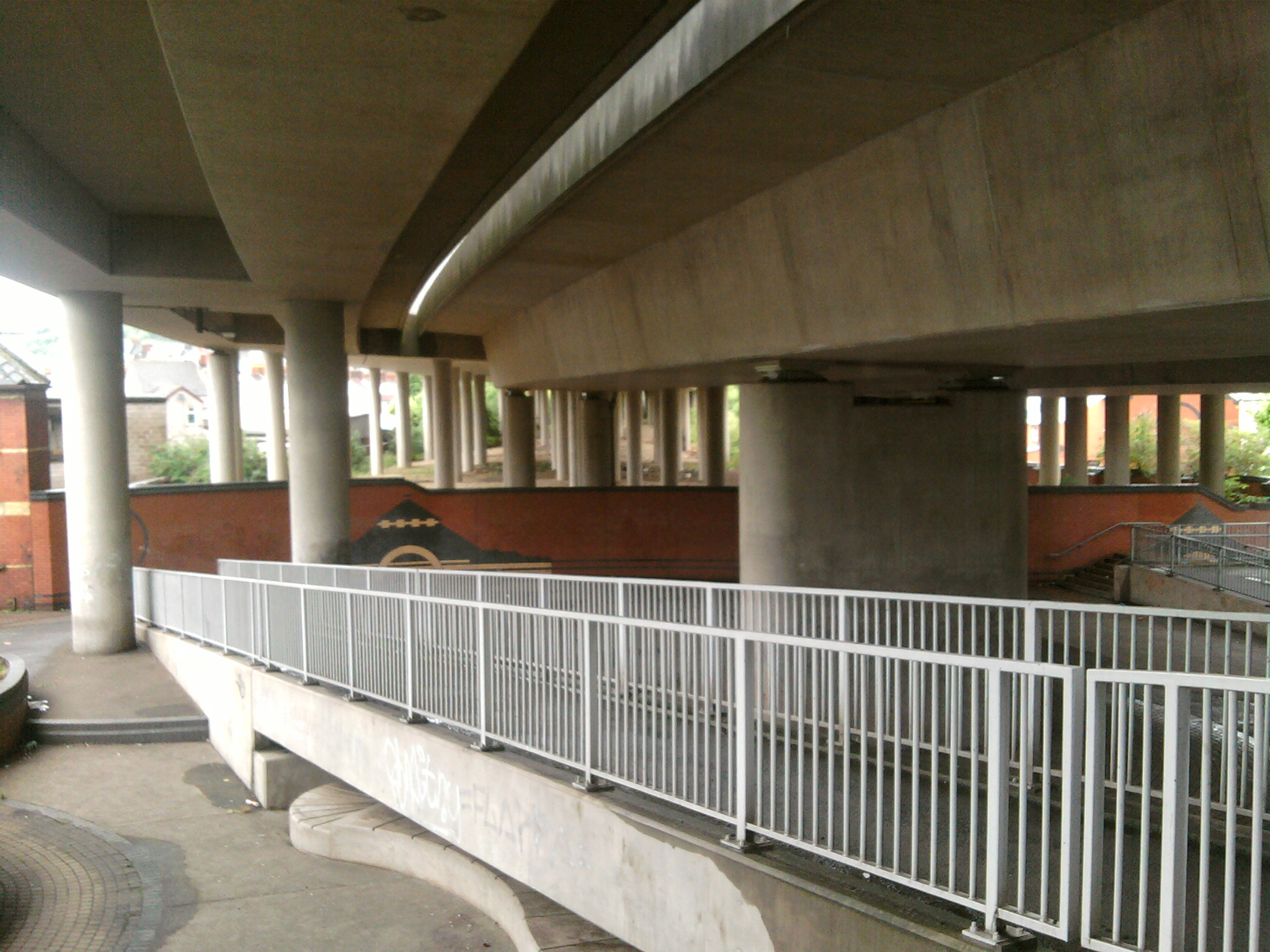 Newport, UK